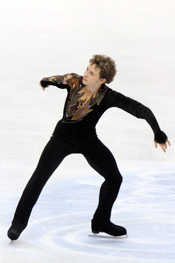 Adam Rippon at the 2010 World Championships.